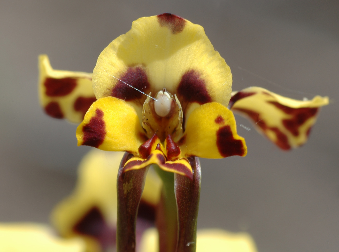 Leopard Orchid, Diuris pardina. Southern mid-lands of Tasmania